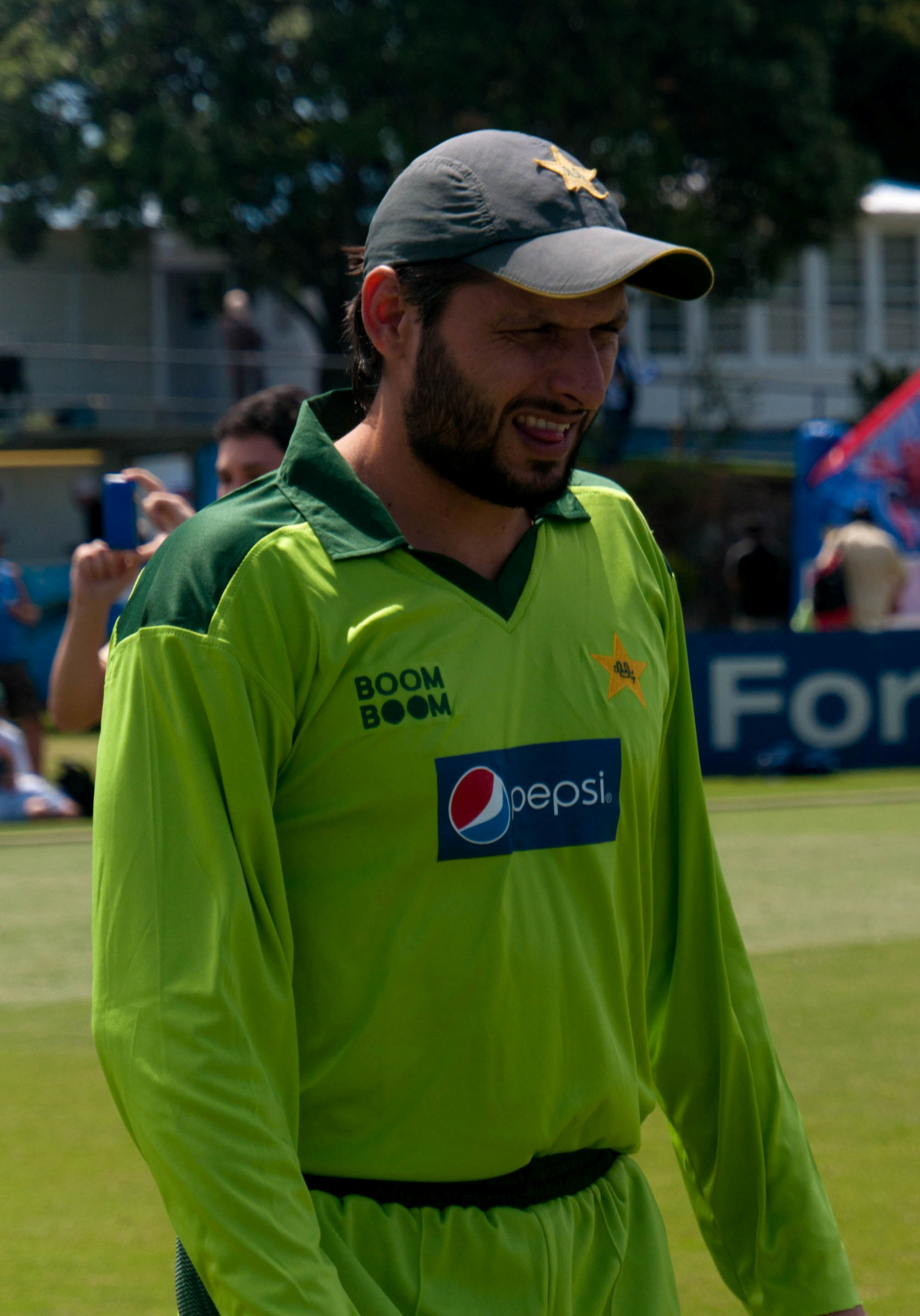 Shahid Afridi during Pakistan's tour of New Zealand in December 2010. Scorecard.